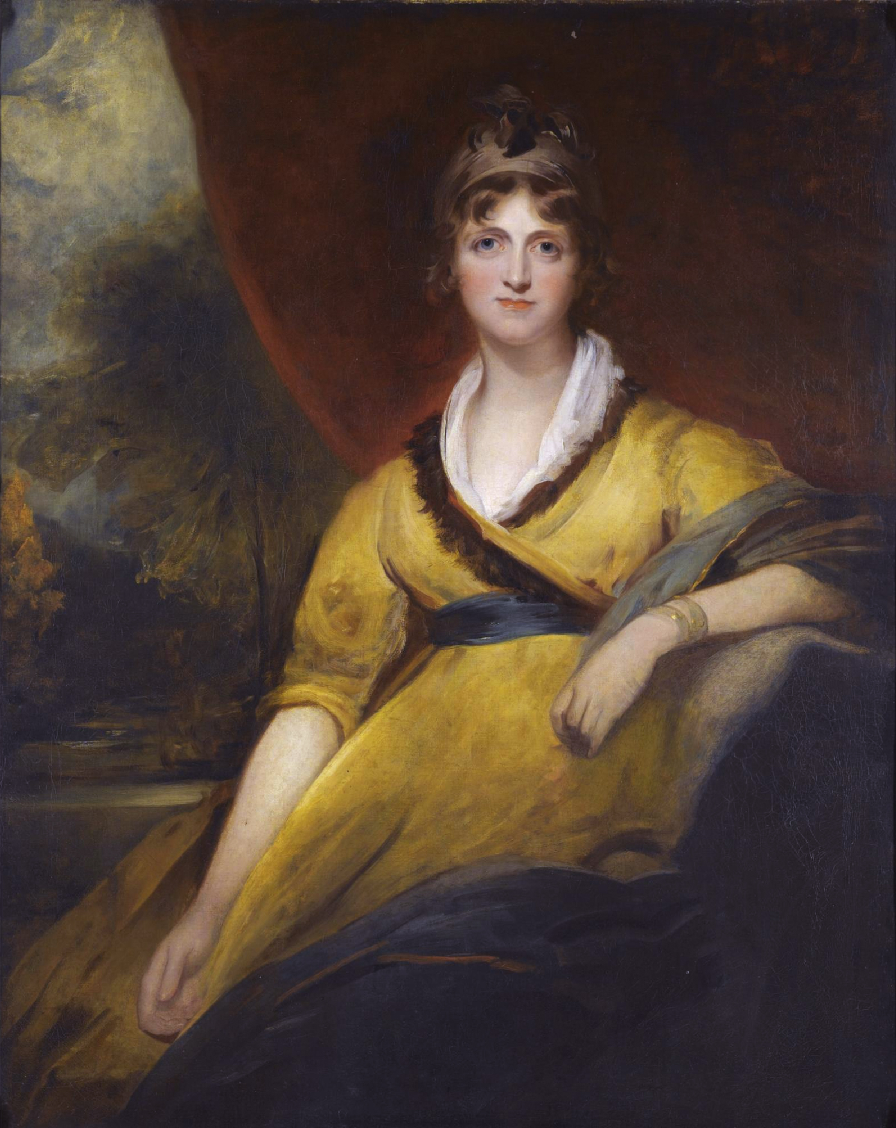 Mary, Countess of Inchiquin (1750-1820), later Marchioness of Thomond, was painted twice by Lawrence, first in 1795 (exhibited R.A. as no. 175), and again circa 1800 in an unfinished portrait now in the Louvre. This portrait is an enlarged version of the one in the Louvre.